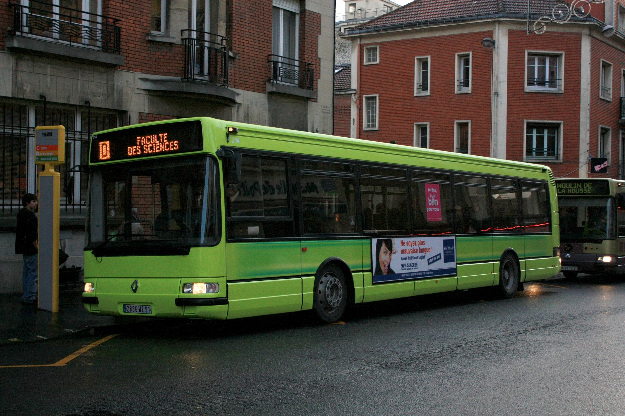 Irisbus Agora S in Rheims, France